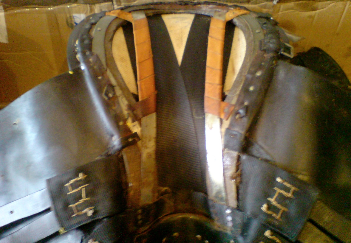 Underside of spring-tree saddle with panel and lining removed